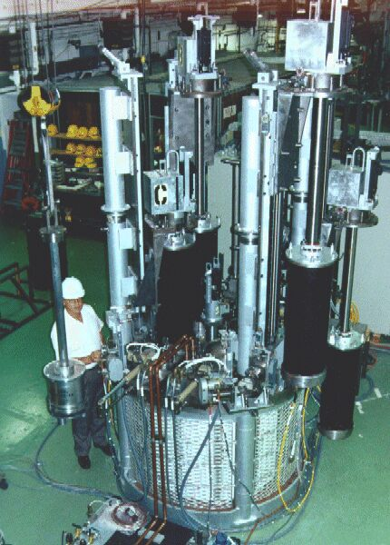 EBR-II Electrorefiner